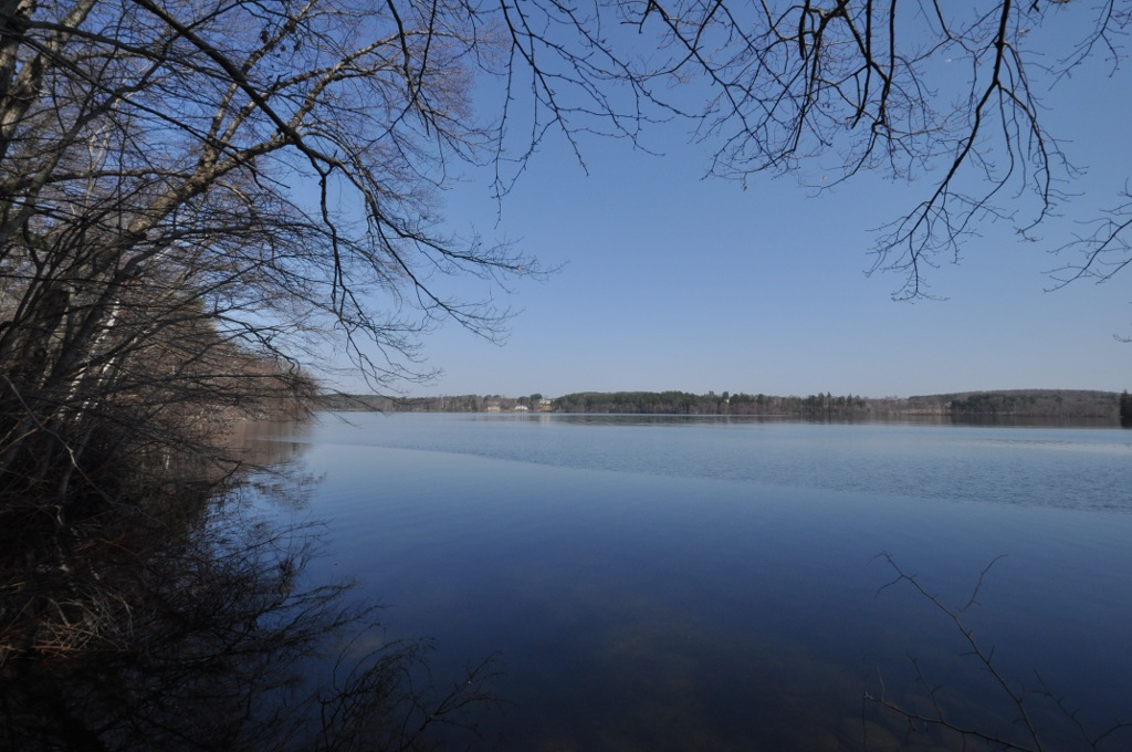 Lake Cochichewick, as seen from the Weir Hill Reservation in North Andover, Massachusetts.